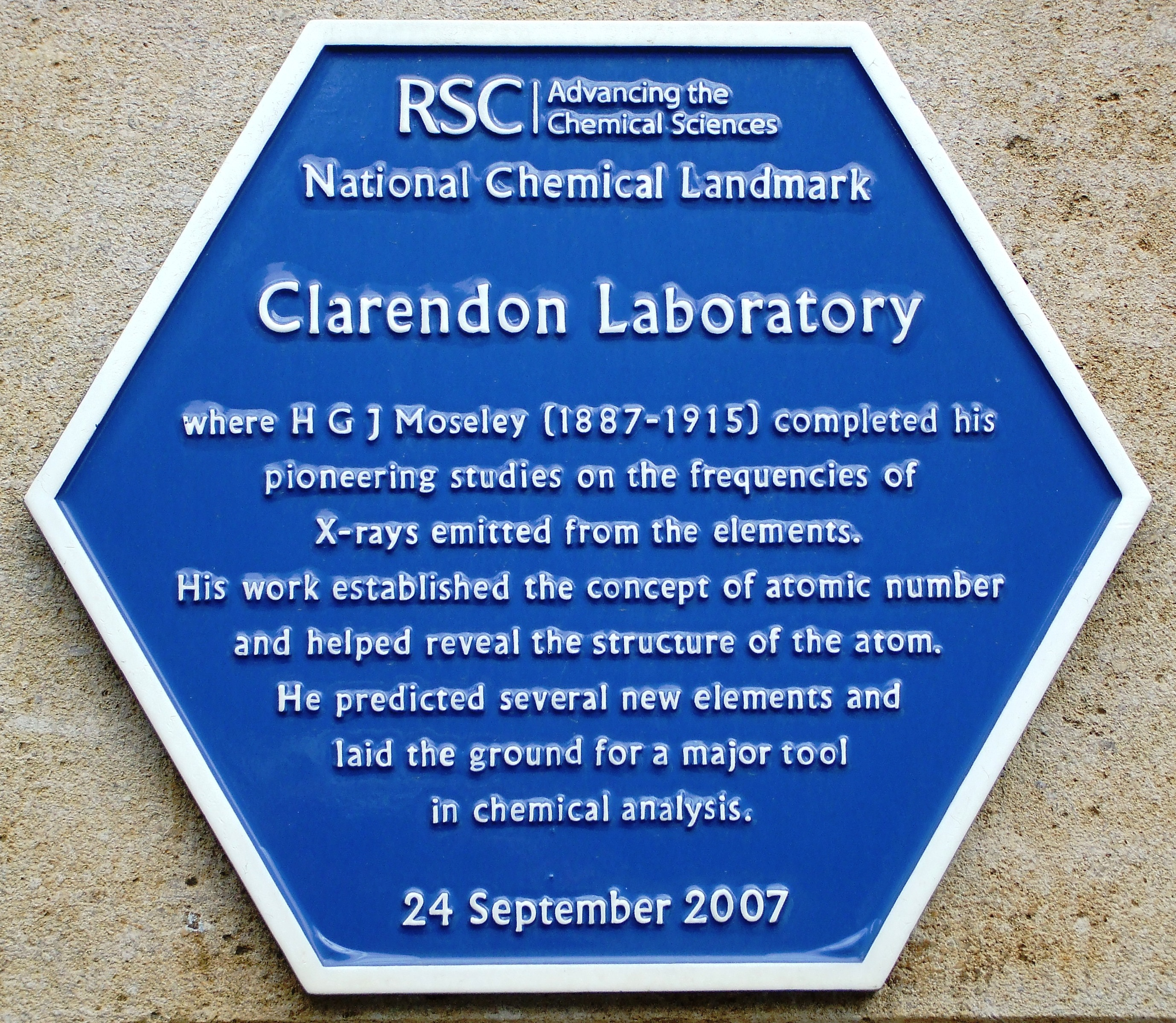 National Chemical Landmark: Clarendon Laboratory where H.G.J. Moseley (1887-1915) completed his pioneering studies on the frequencies of X-rays emitted from the elements. His work established the concept of atomic number and helped reveal the structure of the atom. He predicted several new elements and laid the ground for a major tool in chemical analysis. Clarendon Laboratory, Sherrington Road, Oxford OX1 3PU Plaque erected 24 September 2007 by the Royal Society of Chemistry